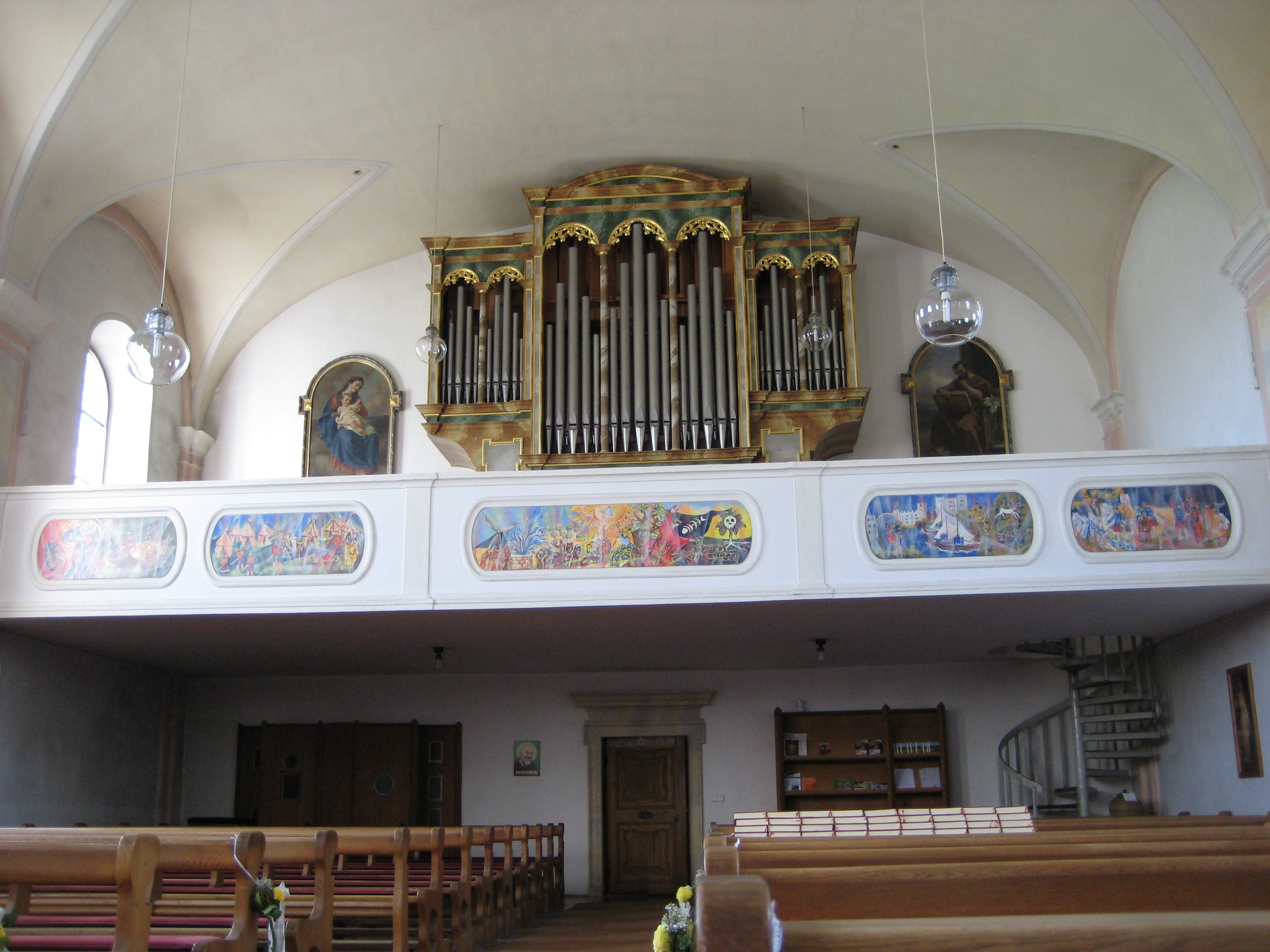 Abbey Sankt Oswald in Sankt Oswald-Riedlhütte